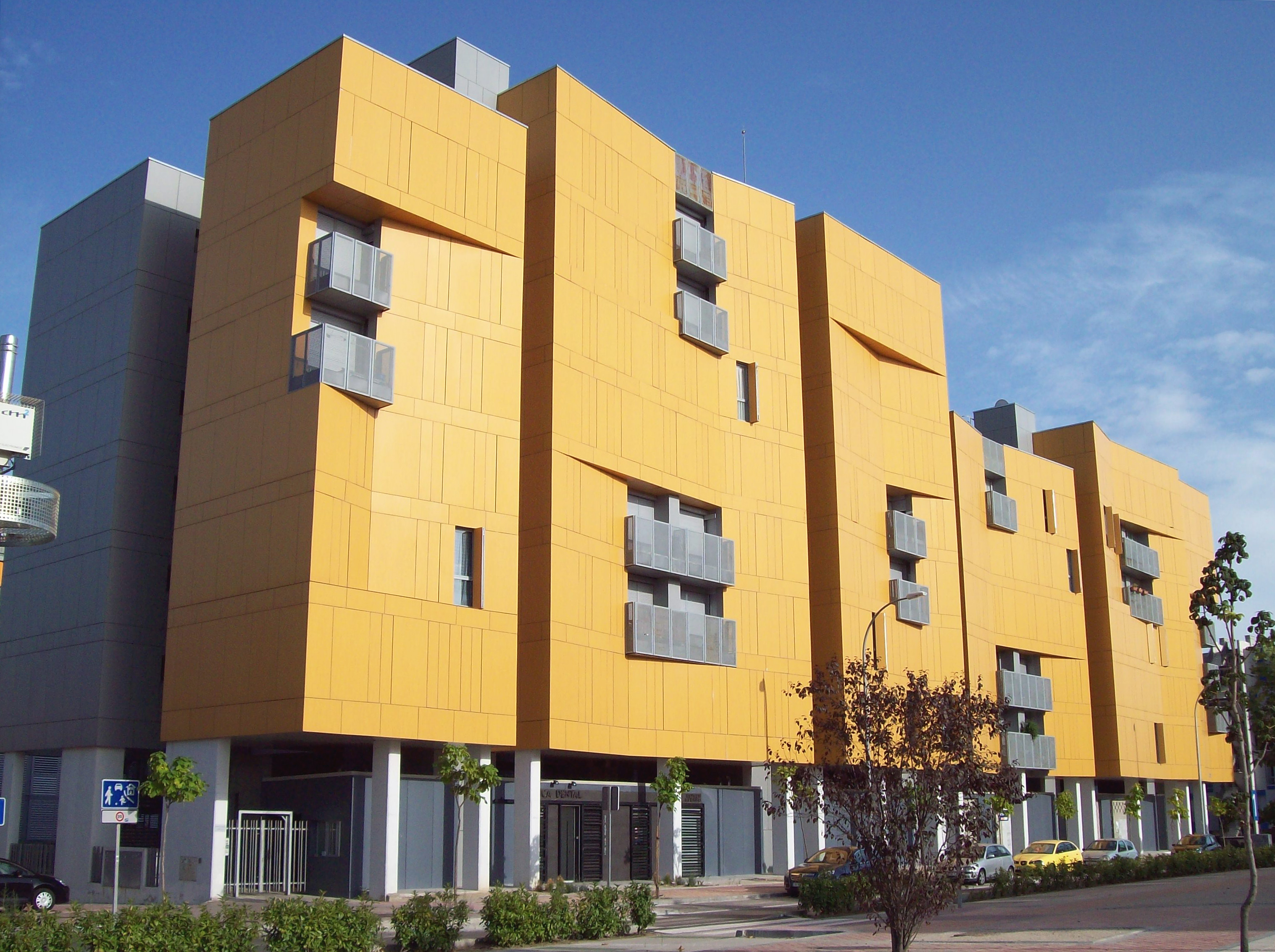 West façade of Vallecas 16 building in Madrid (Spain).